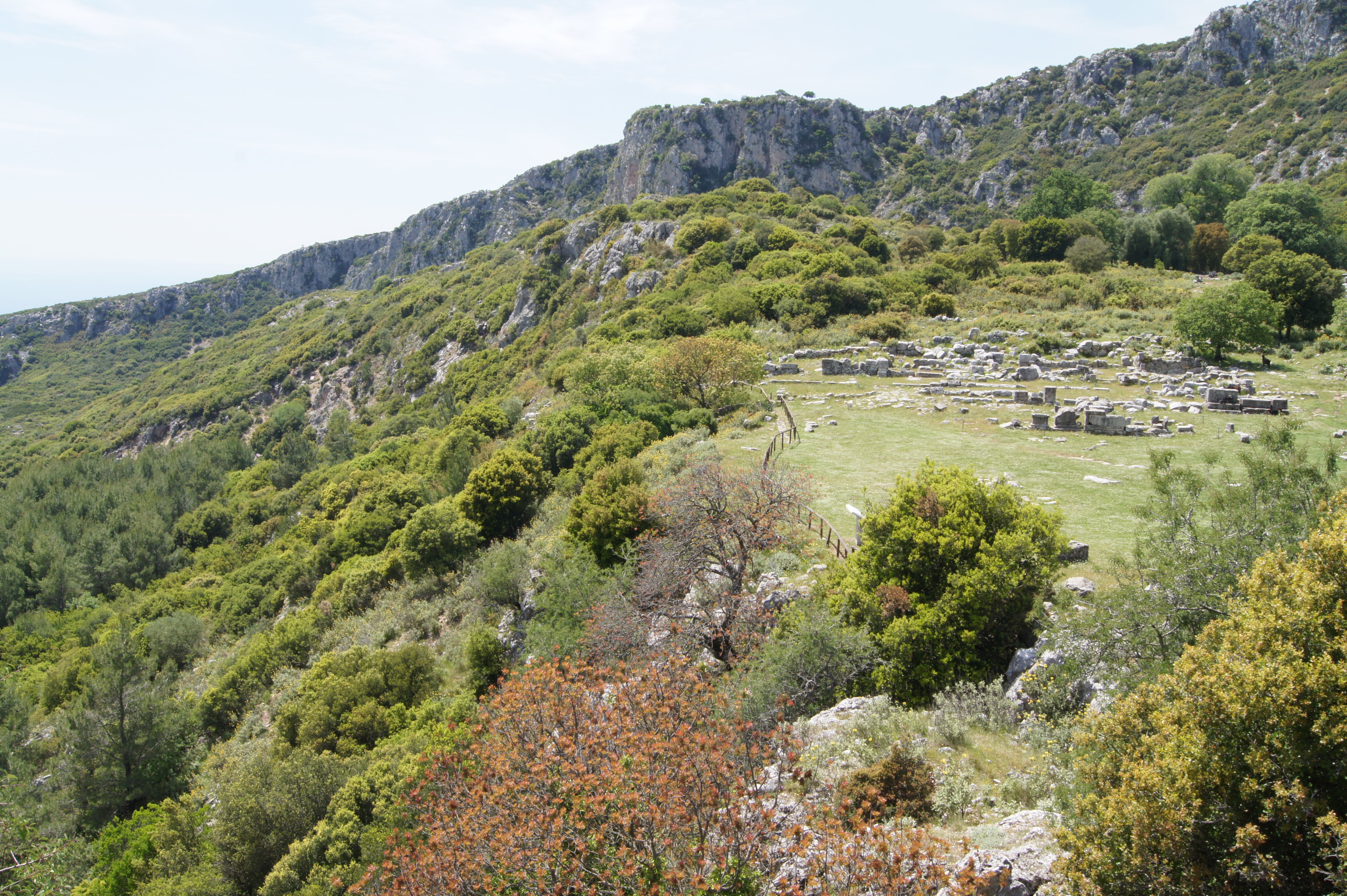 Kassope